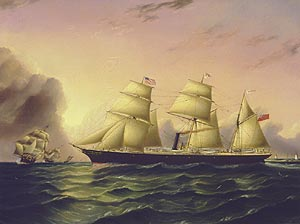 James Edward Buttersworth's painting of the RMS Hibernia, british steamer for the Cunard Line